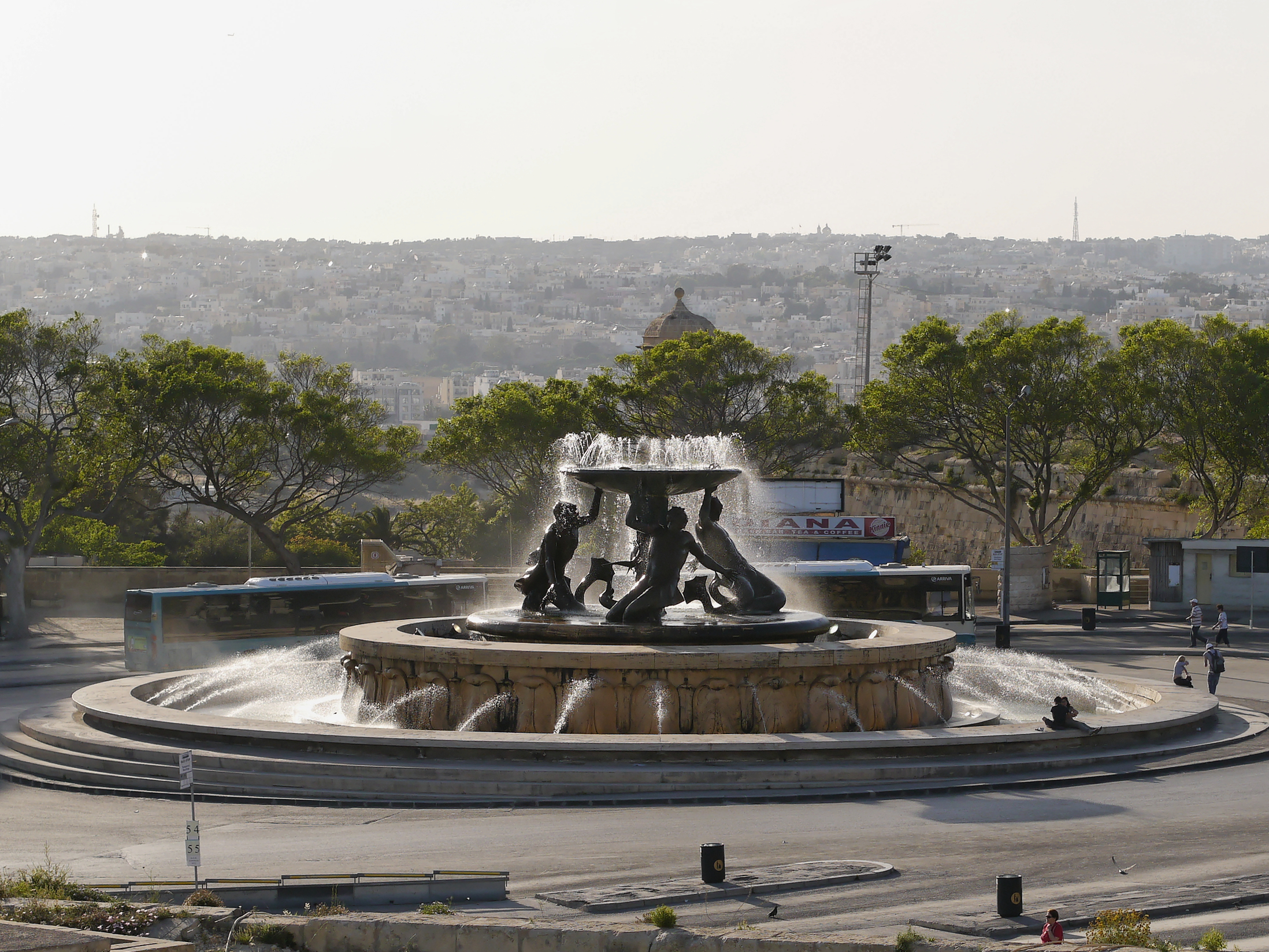 The Triton Fountain by Vincent Apap. Valletta, Malta.